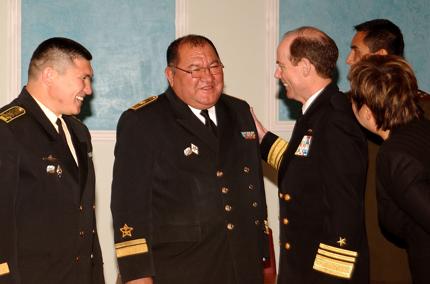 NUR-SULTAN, Kazakhstan (Sept. 26, 2007) - Vice Adm. Kevin Cosgriff, commander of U.S. Naval Forces Central Command and U.S. 5th Fleet, visits with Kazakhstan Navy Rear Adm. Ratmir Komratov prior to a meeting at the Ministry of Defense. Cosgriff traveled to Kazakhstan to meet with leaders of the country's navy and Maritime Border Guard to discuss the U.S. Navy's assistance to Kazakhstan's maritime forces in the Caspian Sea. U.S. Navy photo by Mass Communication Specialist 3rd Class Seth Clarke (RELEASED)